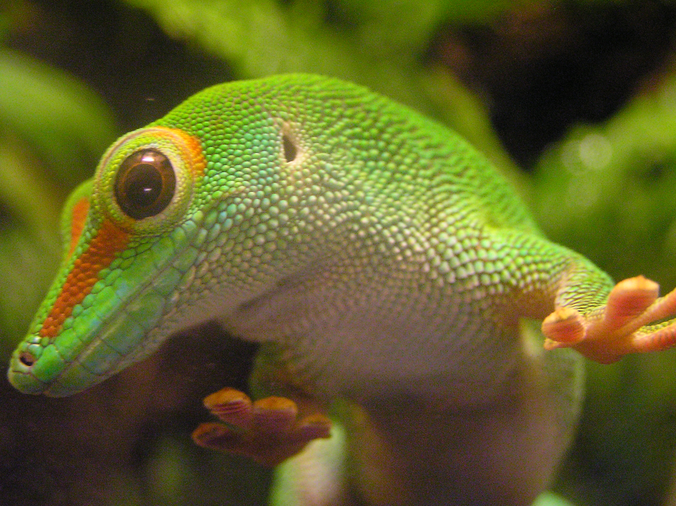 A Madagascar Day Gecko (Phelsuma madagascariensis Grandis) in the Antwerp Zoo.